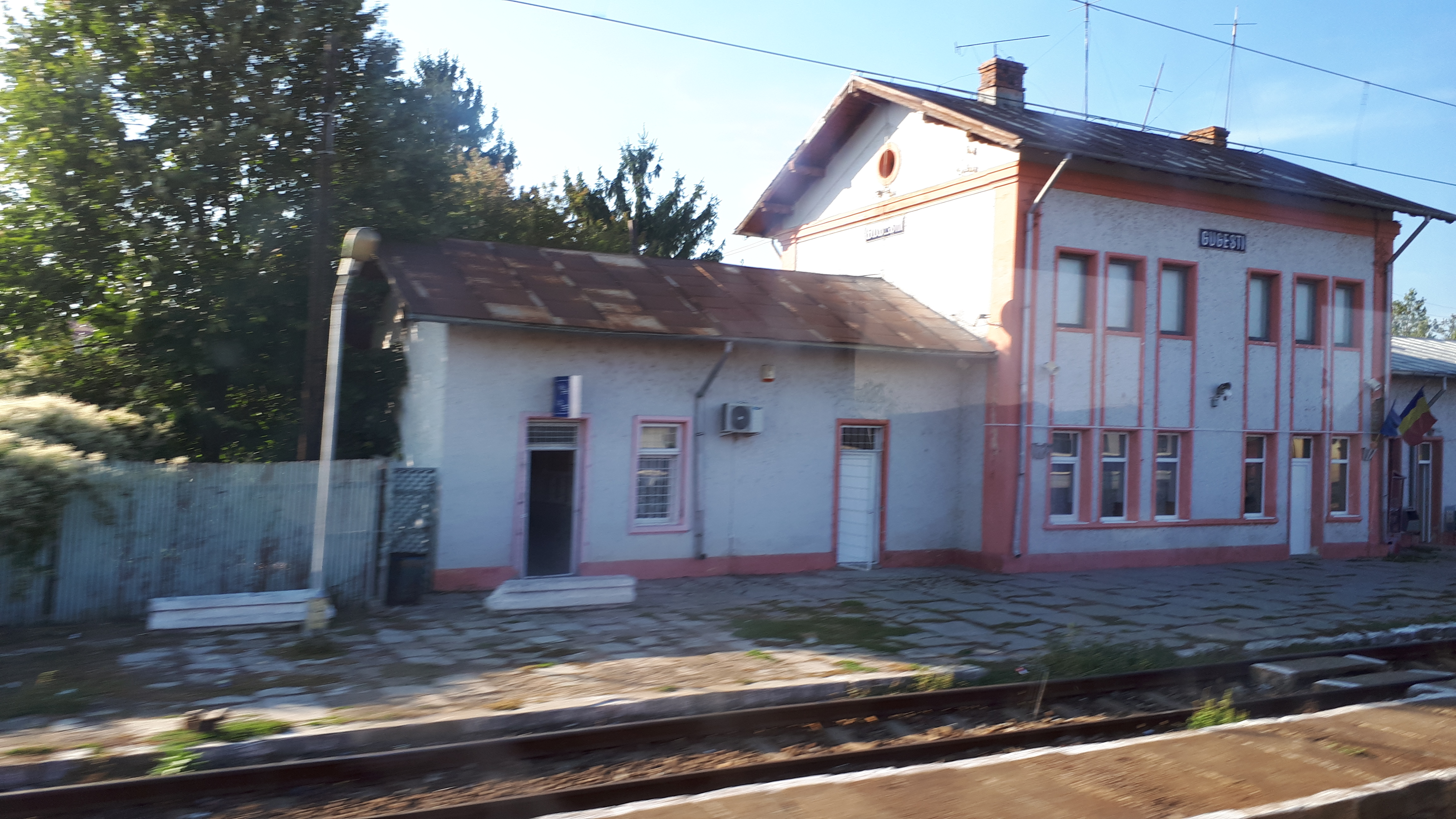 Gugești train station in , Comuna Gugești Vrancea